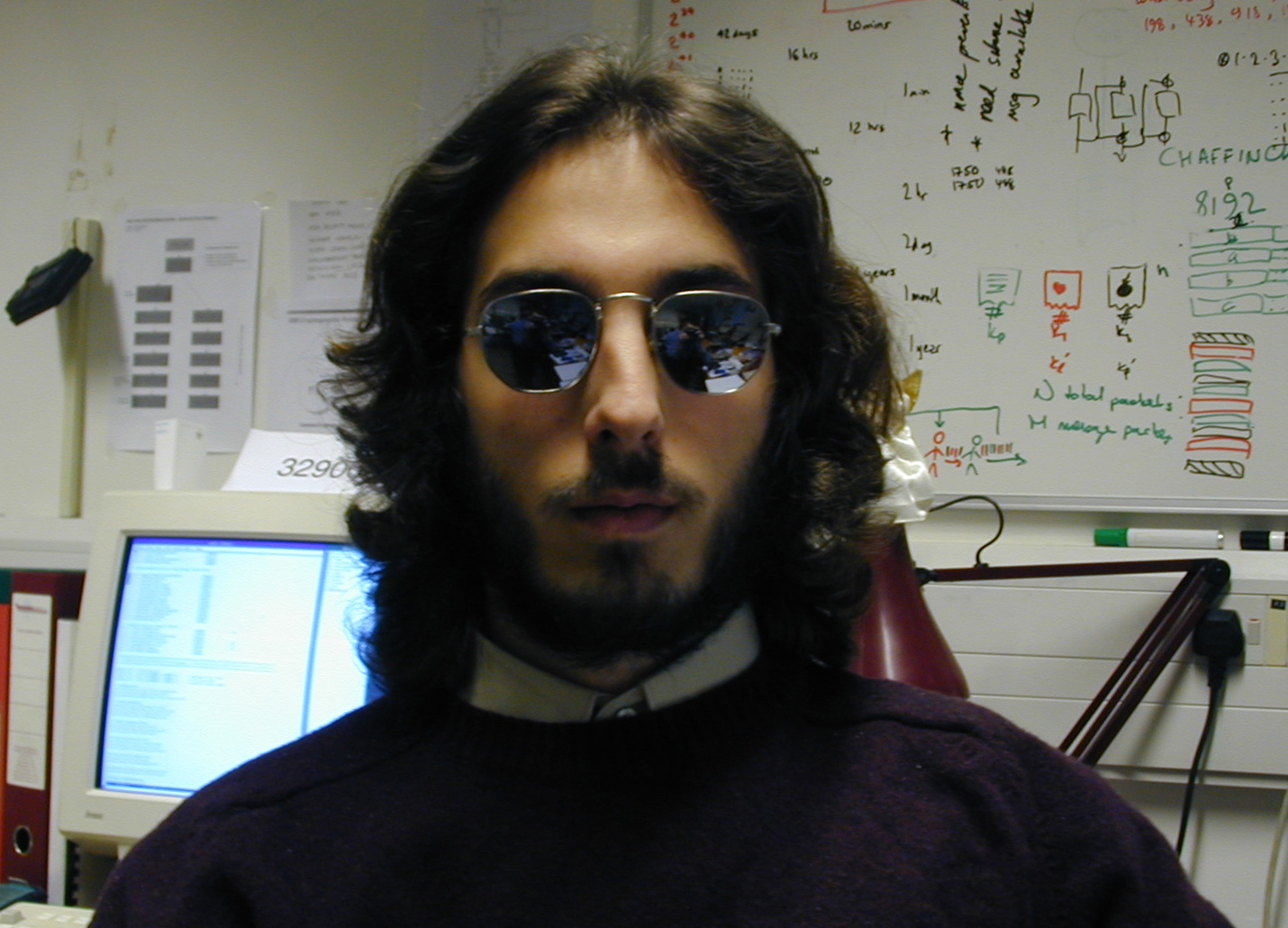 George Danezis in the year 2000 as a PhD student in the Cambridge Computer Laboratory, Photo taken by Markus Kuhn using a Nikon CoolPix E800.